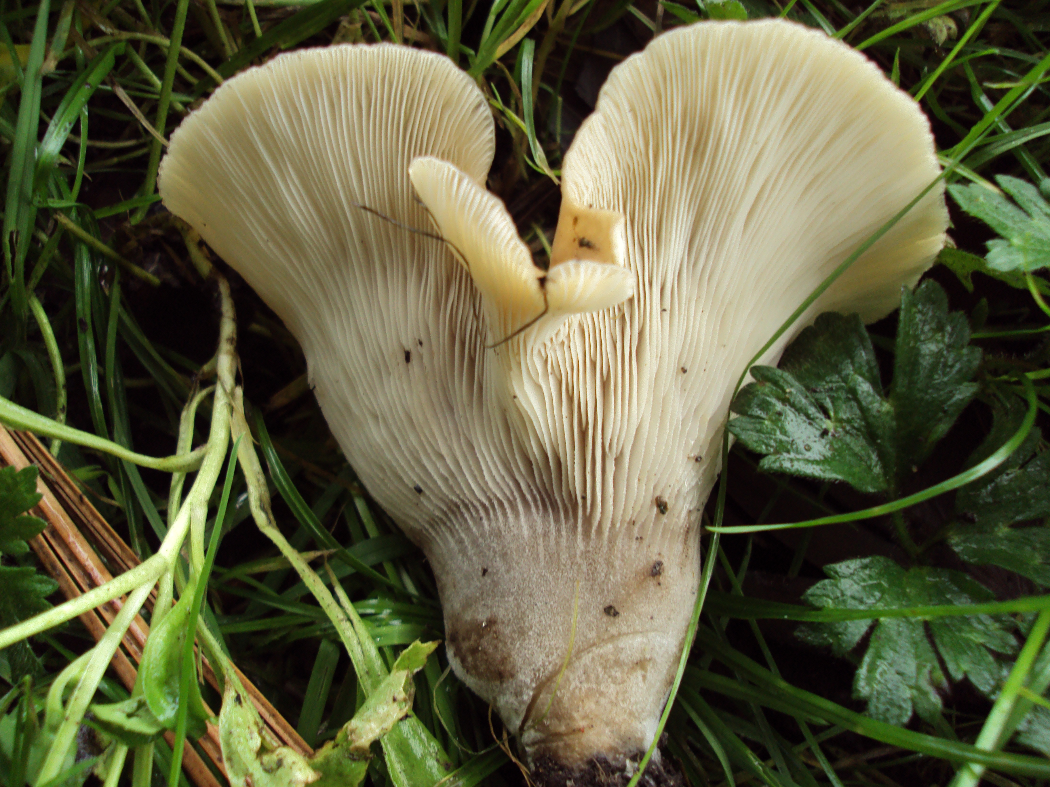 The fungus Hohenbuehelia petaloides (Bull.) Schulzer. Specimen photographed in Redwood City, California USA.